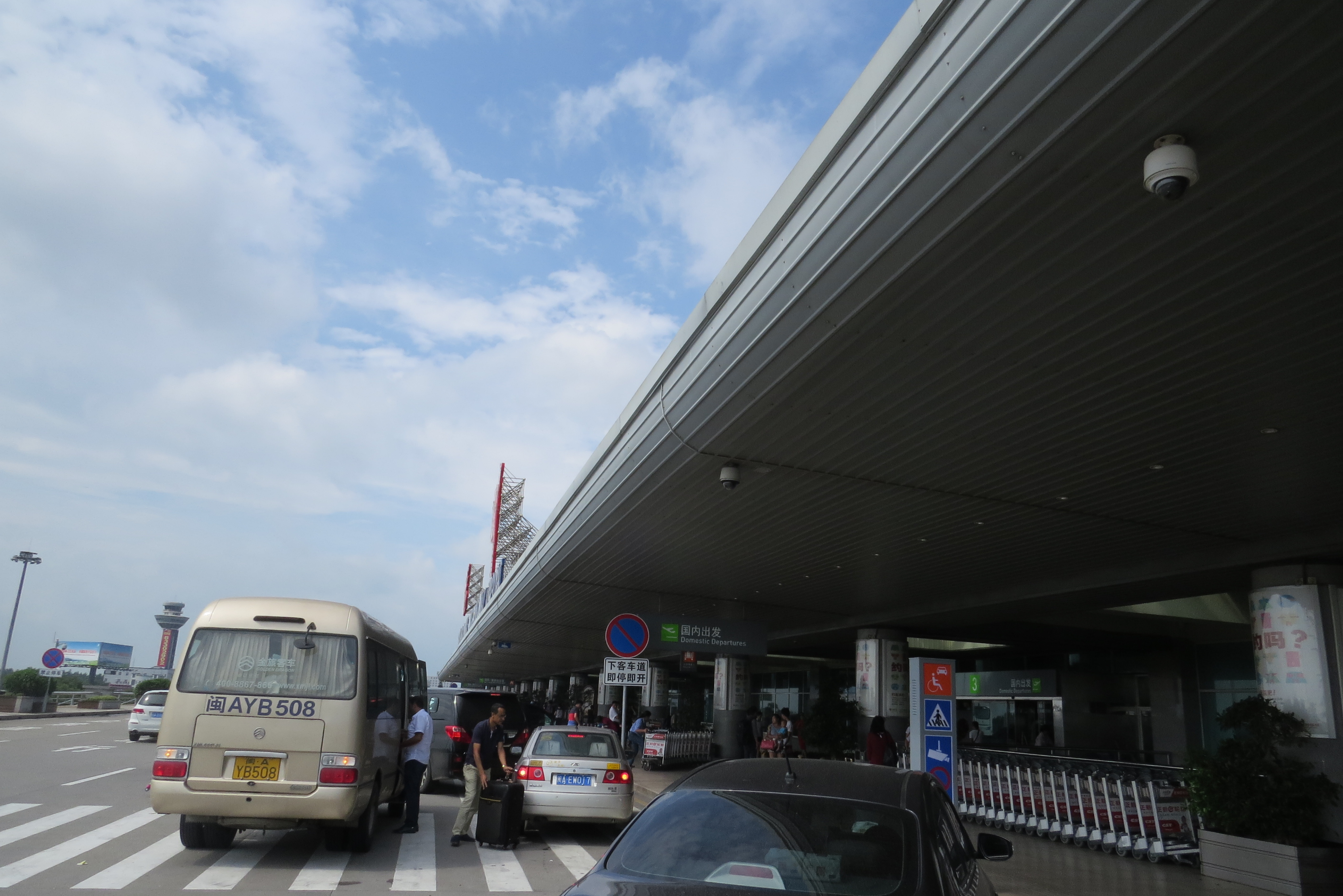 Departures here...